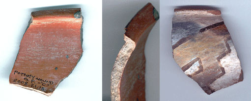 Three views of a sherd with Pottery Mound Glaze Polychrome slip and paint scheme and C rim. Note red interior slip, white exterior slip, and two-color (red and black) paint scheme. From LA 416, Pottery Mound, site surface.